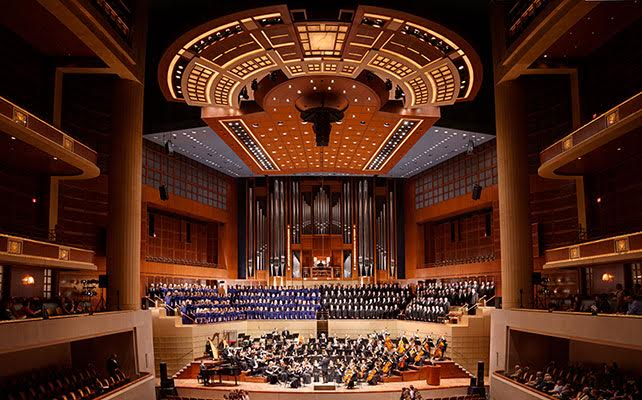 MCO performing in the Eugene McDermott Concert Hall @ Meyerson Symphony Center for the ACDA National Conference in Dallas, TX, 2013